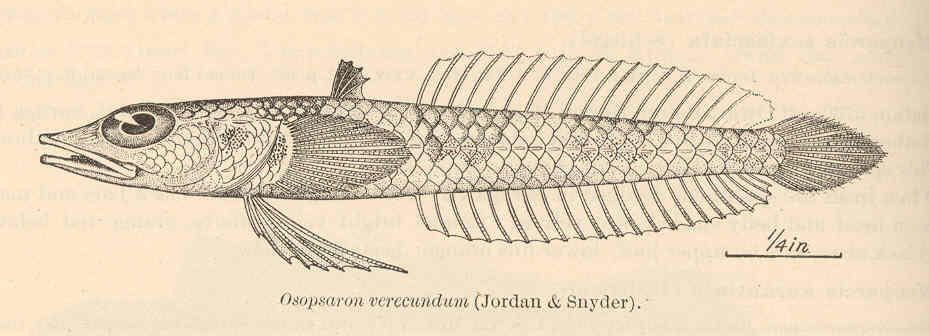 Osopsaron verecundum (Jordan & Snyder) Subject: Perciformes, Osopsaron Tag: Fish